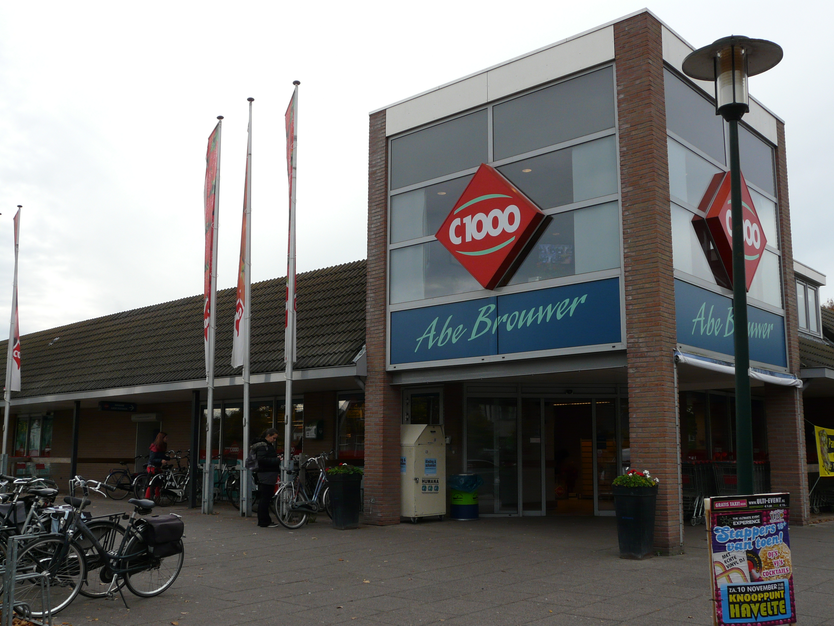 Supermarket C1000 Havelte